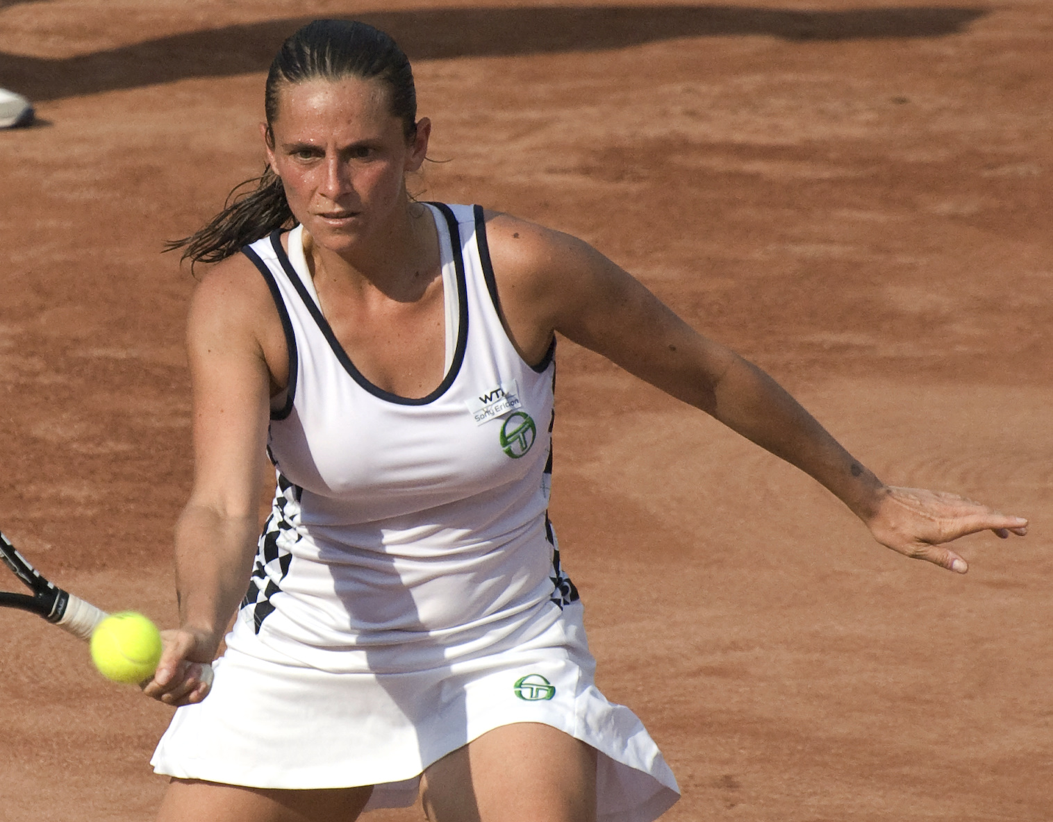 Roberta Vinci in Budapest, 08. 07. 2011.